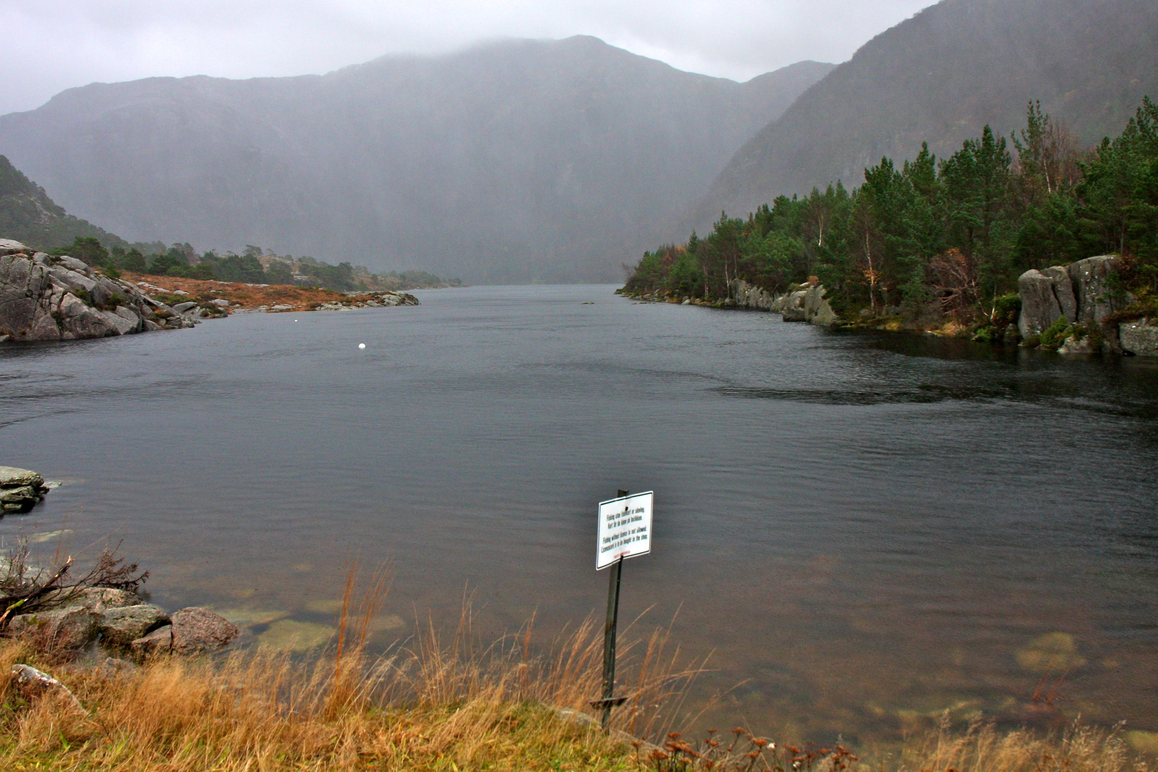 Gulen municipality, Norway.